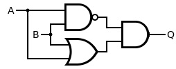 Three gate implementation of XOR gate